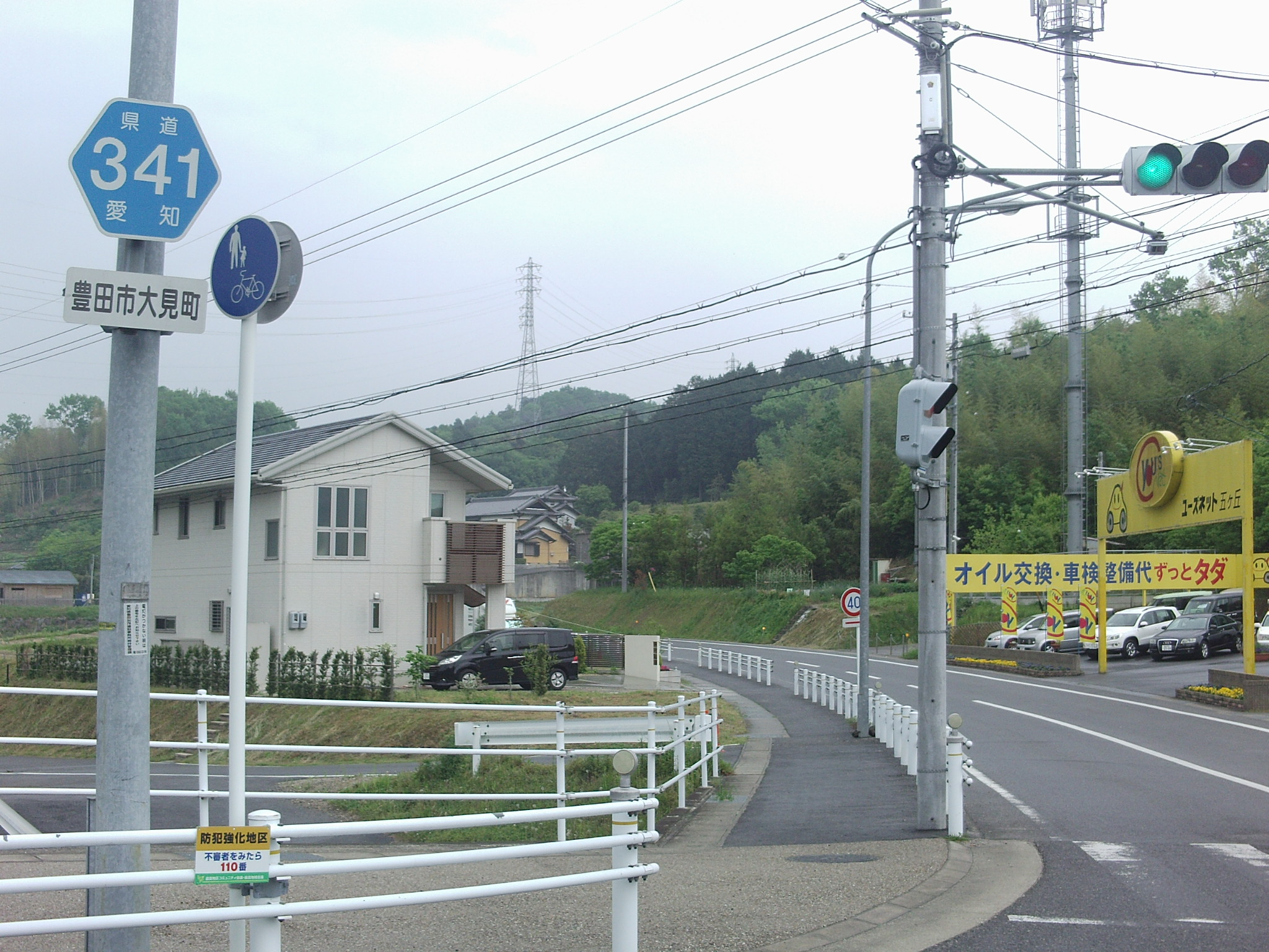 Aichi prefectural road No.341 in Omicho, Toyota, Aichi.